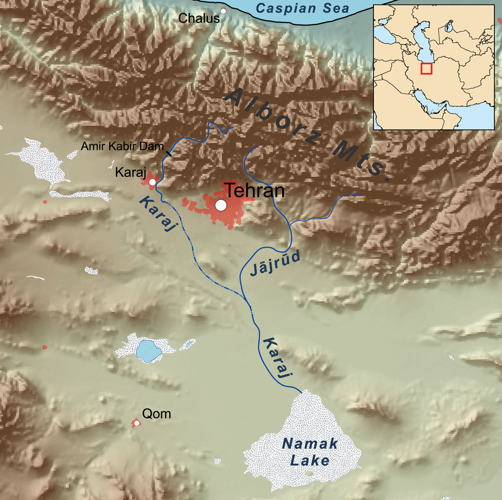 Map showing the Karaj River in Iran, the dashed portion of the river is intermittent. Urban areas are in red.